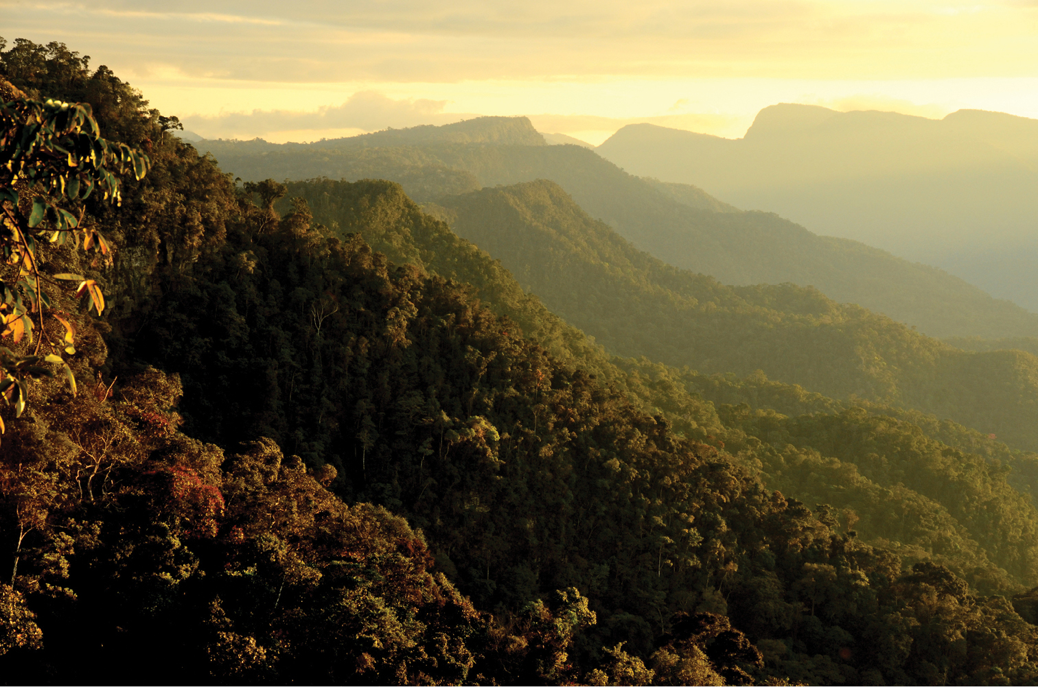 Habitat at the type locality of Enyalioides azulae and Enyalioides binzayedi. The photo shows the montane rainforest on the top of the mountain ridge that forms the boundary between Region de San Martin and Region de Loreto. Photograph by A. Del Campo.